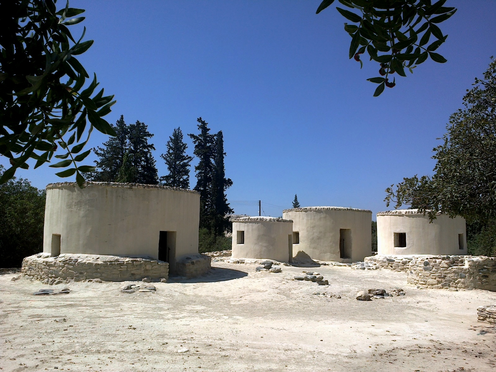 Chypre Khirokitia Village Neolithique